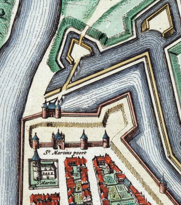 Maastricht, the Netherlands. Detail of a map of Maastricht from the Atlas van Blaeu (1652) showing the northeastern part of Wyck around the parish church and city gates of Saint Martin's.